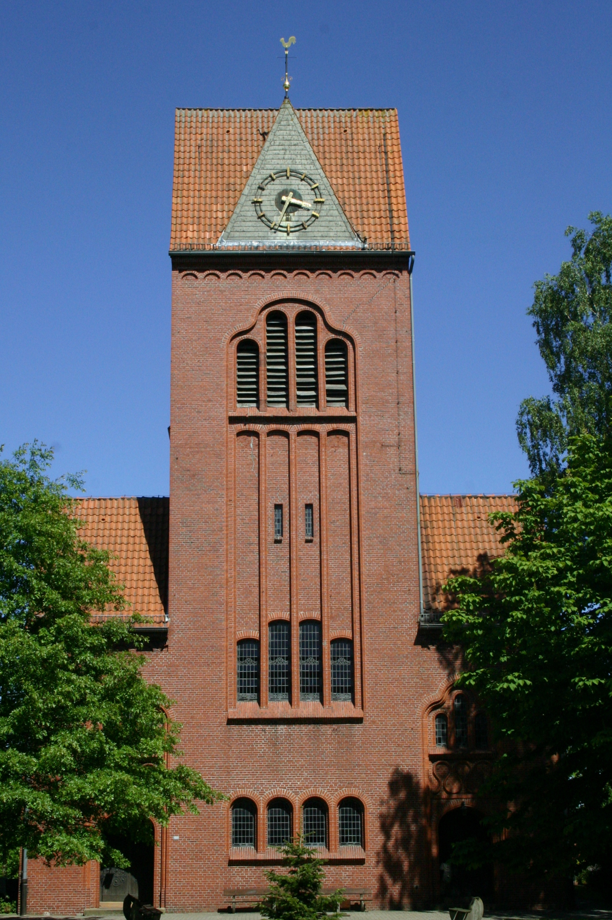 Historic church (new reformed church) in Borssum, city of Emden, East Frisia, Germany